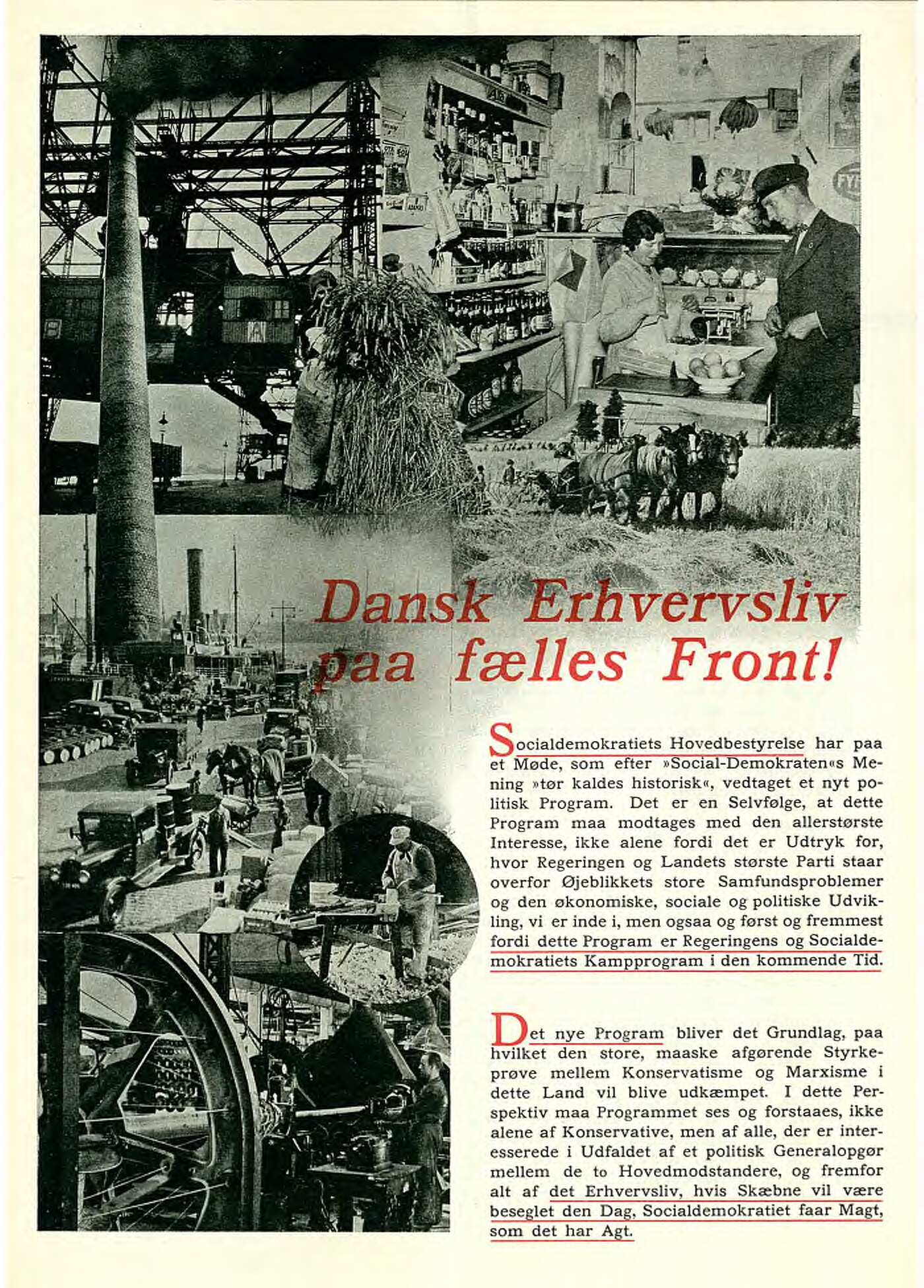 Danish Conservative People's Party election poster of 1935.